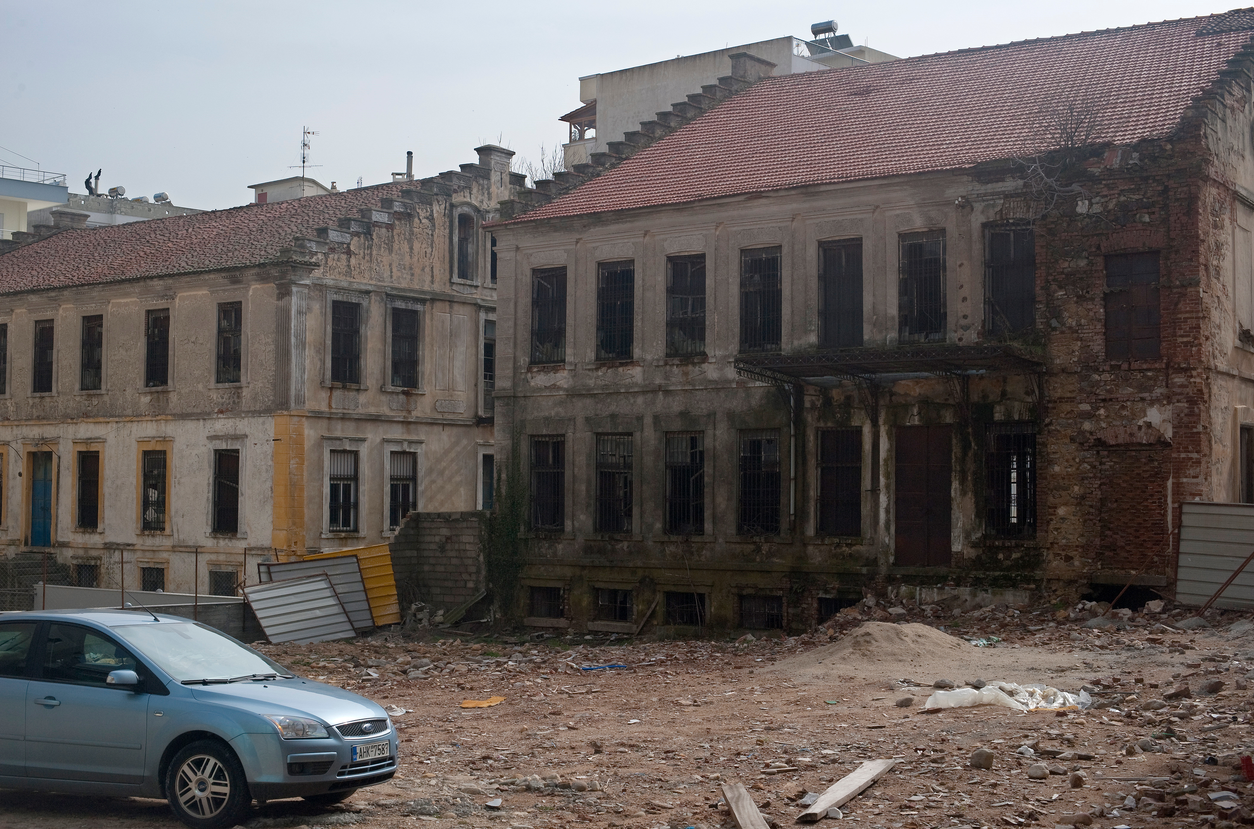 Old tobacco warehouse, Xanthi, West Thrace, Greece.